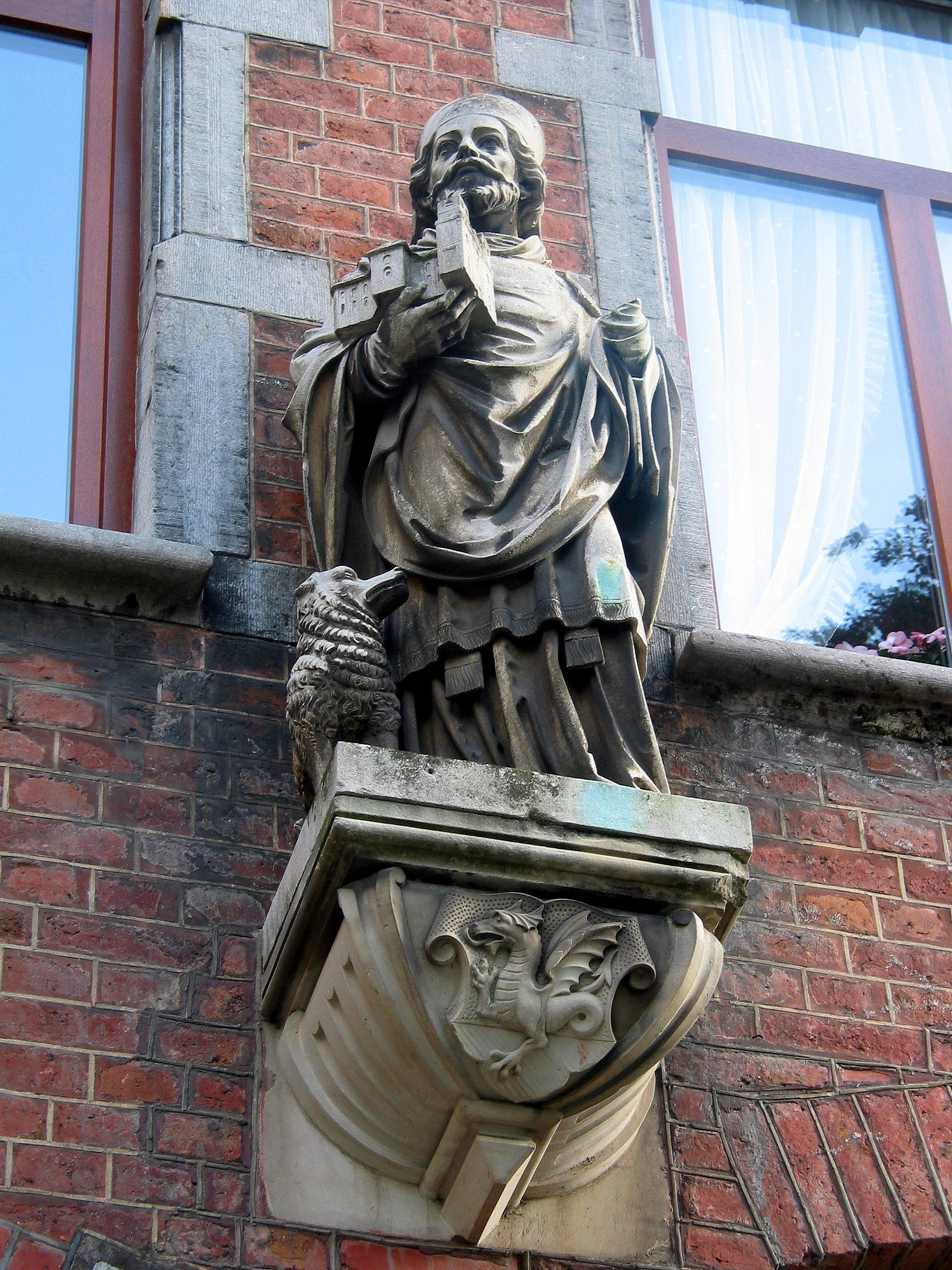 Statue of Saint Remaclus in Malmedy.